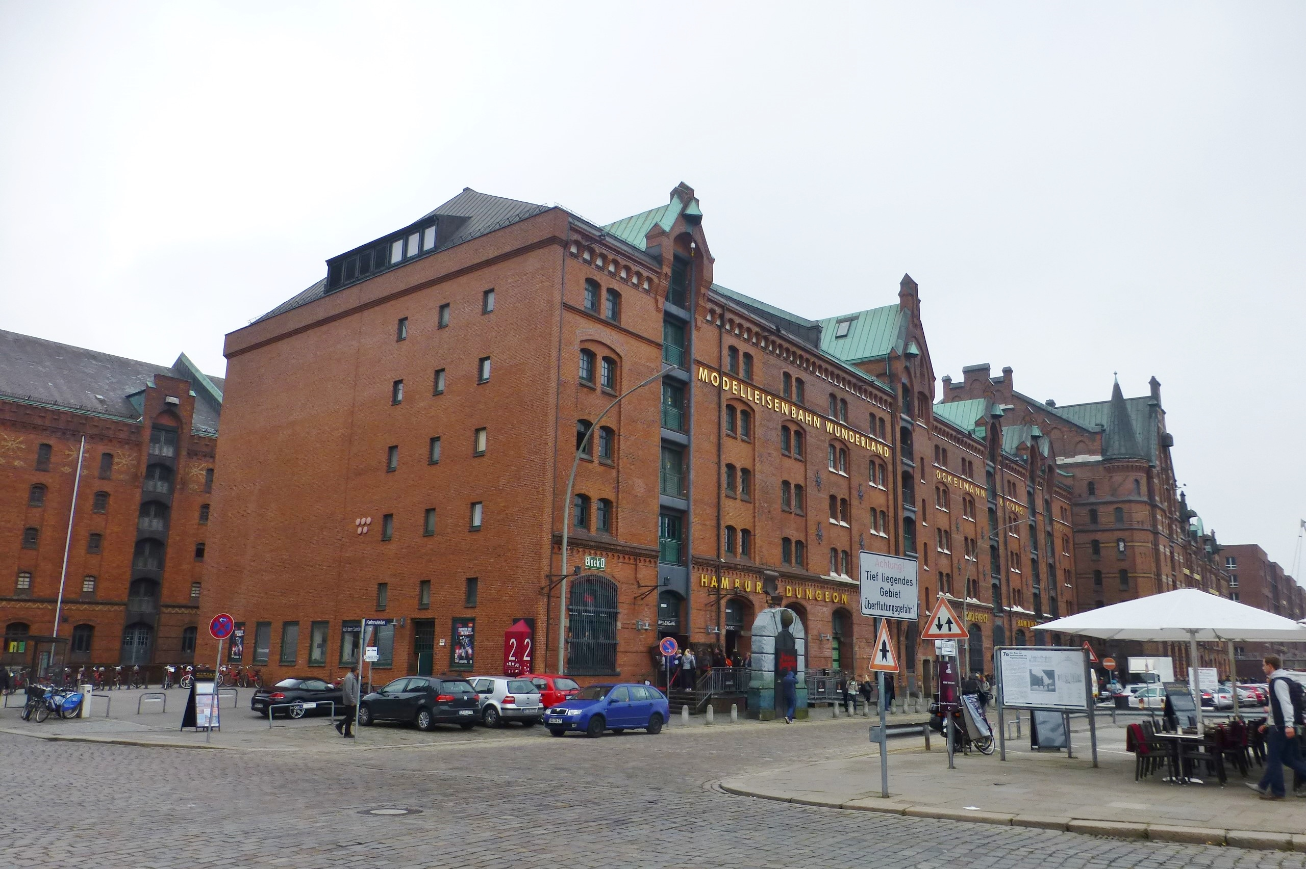 The building of Miniatur Wunderland and Hamburg Dungeon in Speicherstadt in Hamburg.